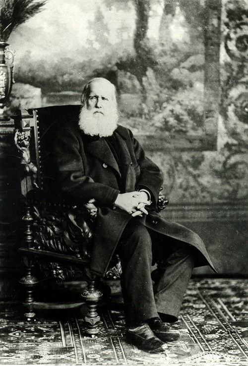 Dom Pedro II of Brazil, in exile, he signed D. Pedro D'Alcântara. The picture was taken in Cannes, France on March 11, 1890